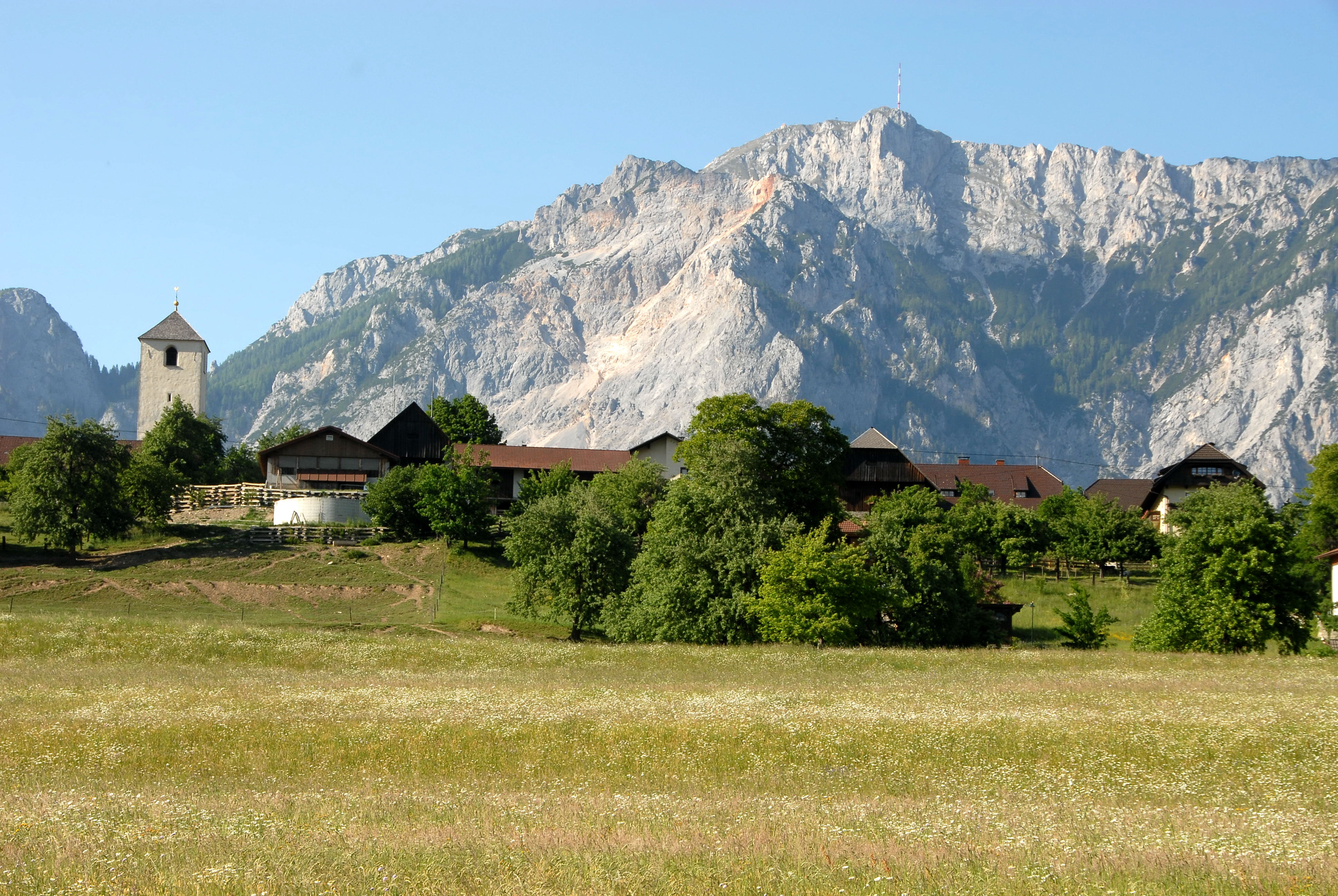 View of Hohenthurn with the subsidiary church Saint Cyriacus and the Dobratsch in the background, municipality Hohenthurn, district Villach Land, Carinthia, Austria, EU